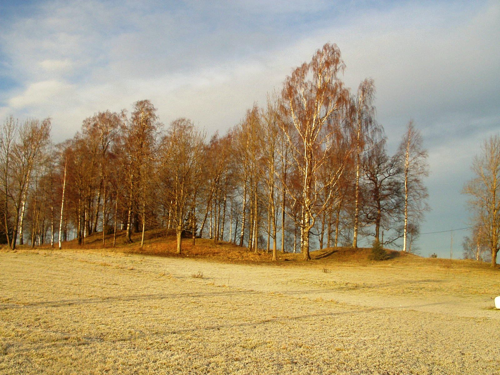 Grave Mounds at Kråkstad